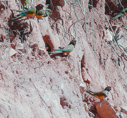 Burrowing Parrots by their burrows in Melado Valley, Chile.